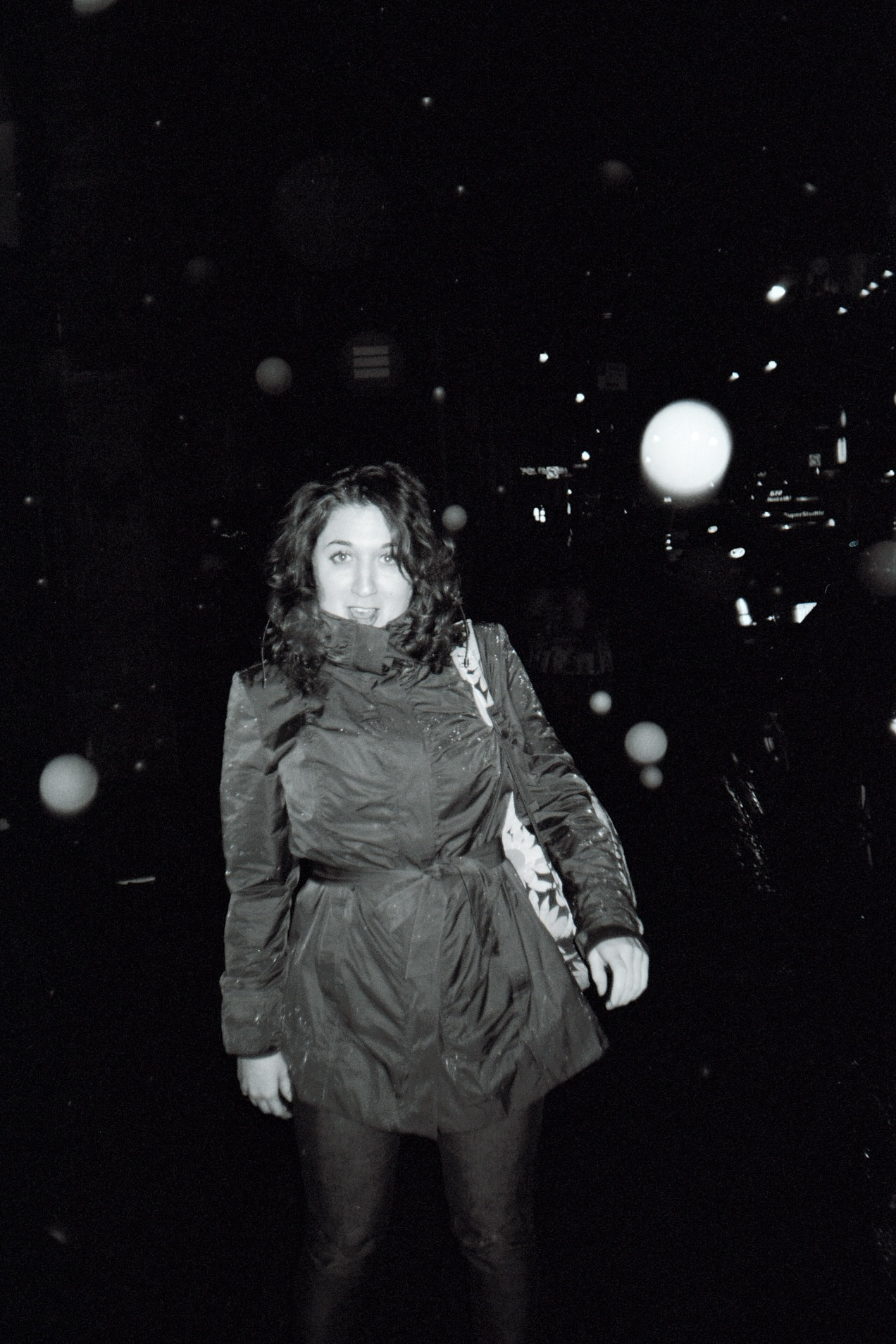 Cecily McMillan